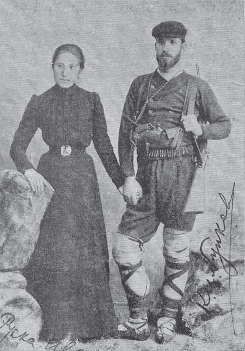 Kosta Nunkov and his wife